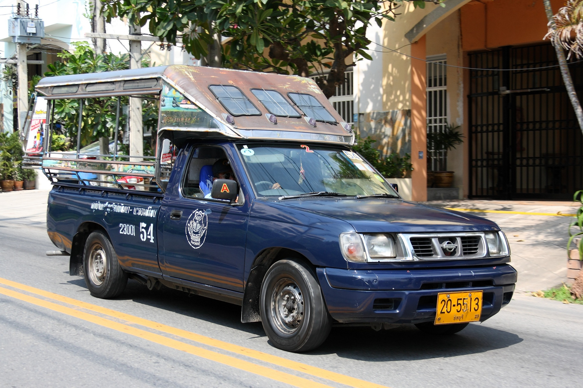 Songthaew on Pratamnak Road, Pattaya, Thailand